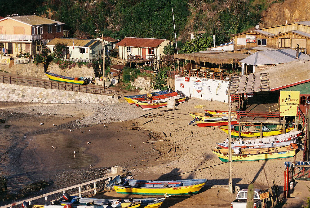 Caleta Quintay